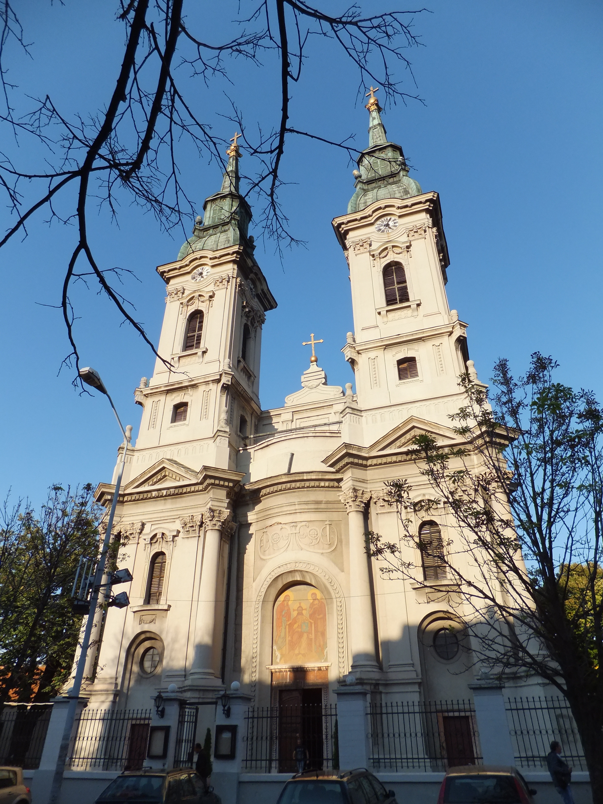 Uspenska crkva Pančevo was built between 1801 and 1810. It was declared a Monument of Culture of Great Importance.